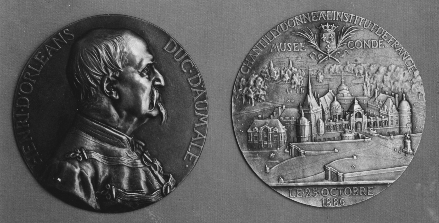 French; Medallion; Medals and Plaquettes